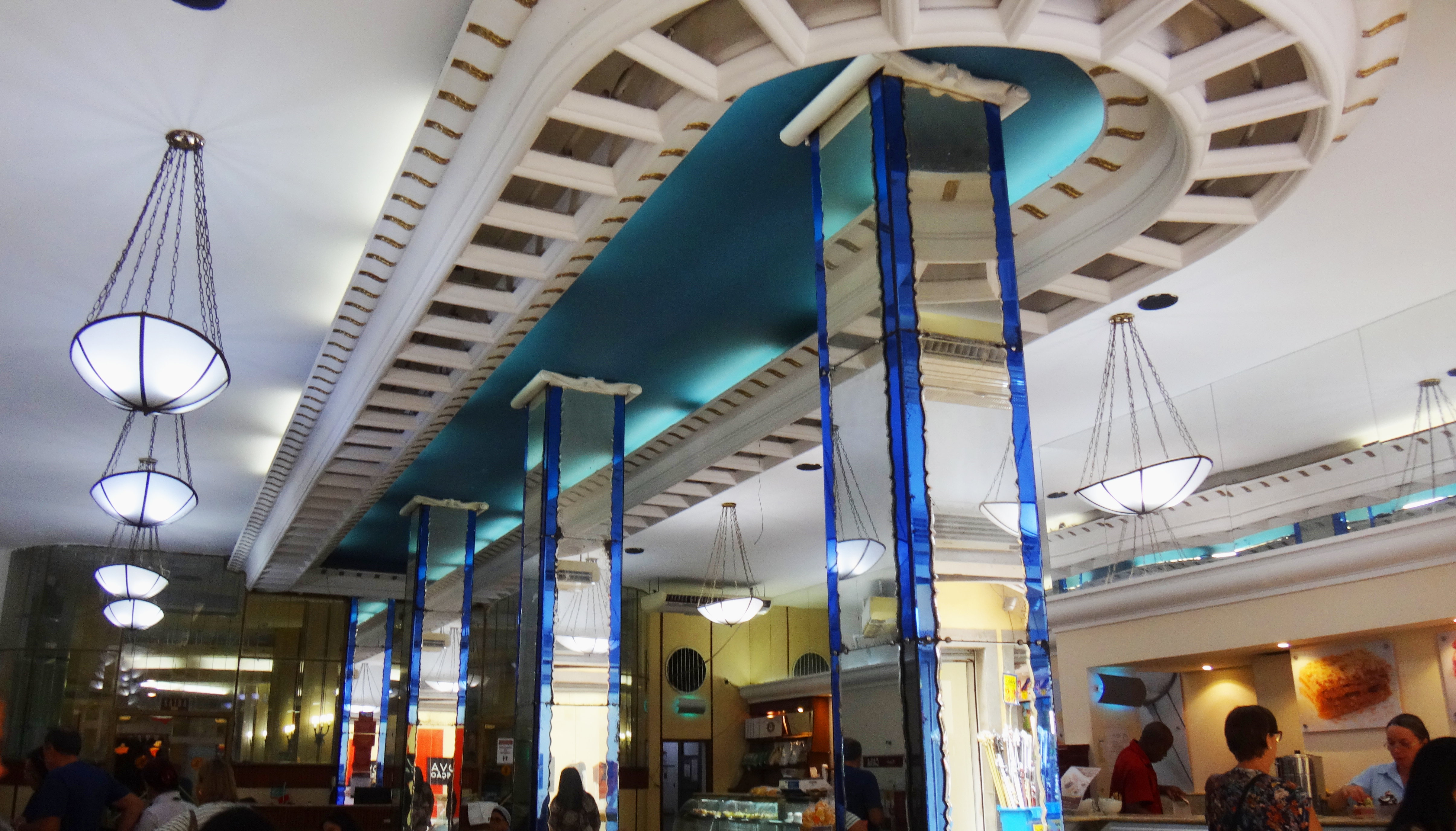 Interior of Manon Pastry Shop in the centre of Rio de Janeiro, Brazil.